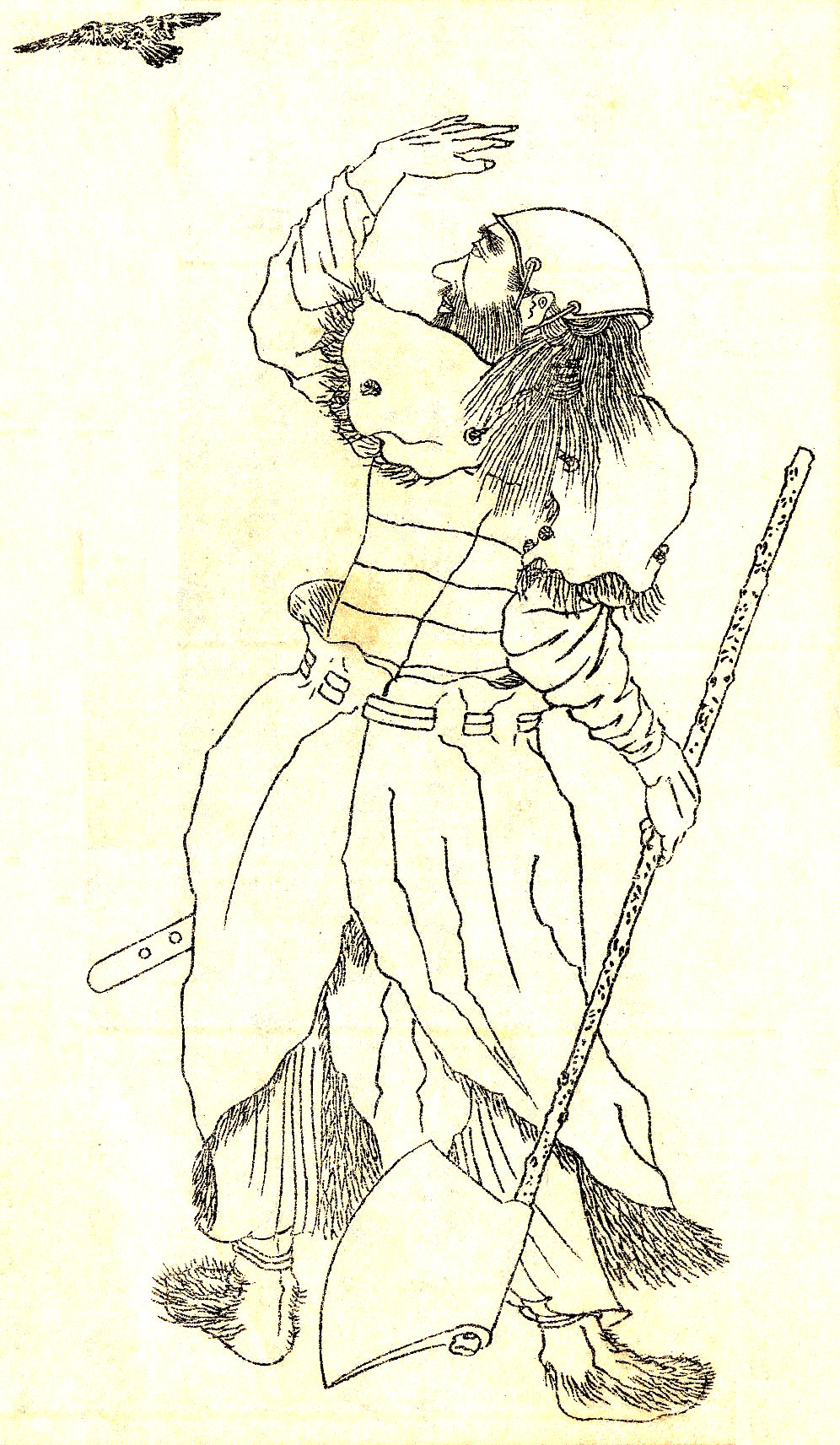 Michinoomi no Mikoto（道臣命）was a legendantly person of Japanese Mythology.